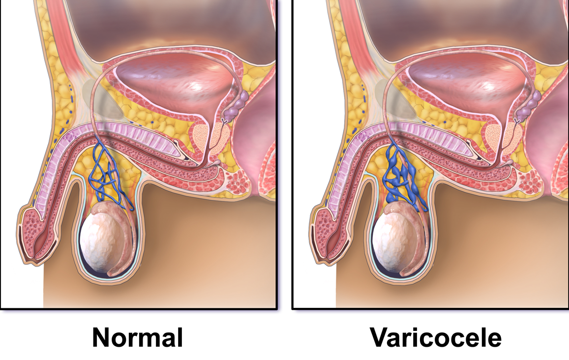 Varicocele. This image was donated by Blausen Medical. Please visit our website to see more medical illustrations and animations.